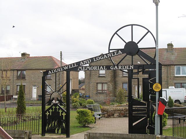 Addiewell and Loganlea Memorial Garden Sculpture in a beautifully kept park and play area.